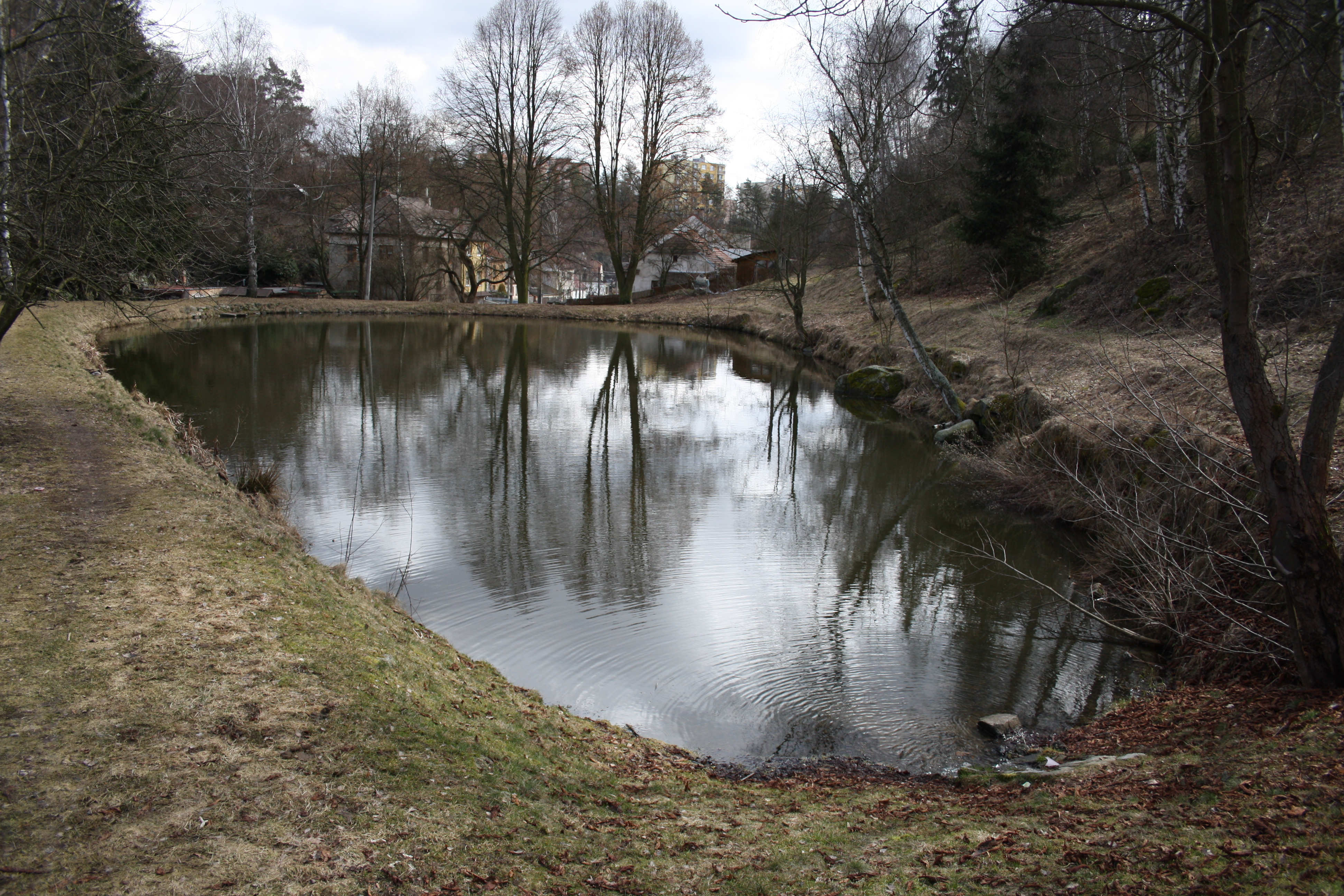 Pond Baba in Třebíč, Czech Republic.